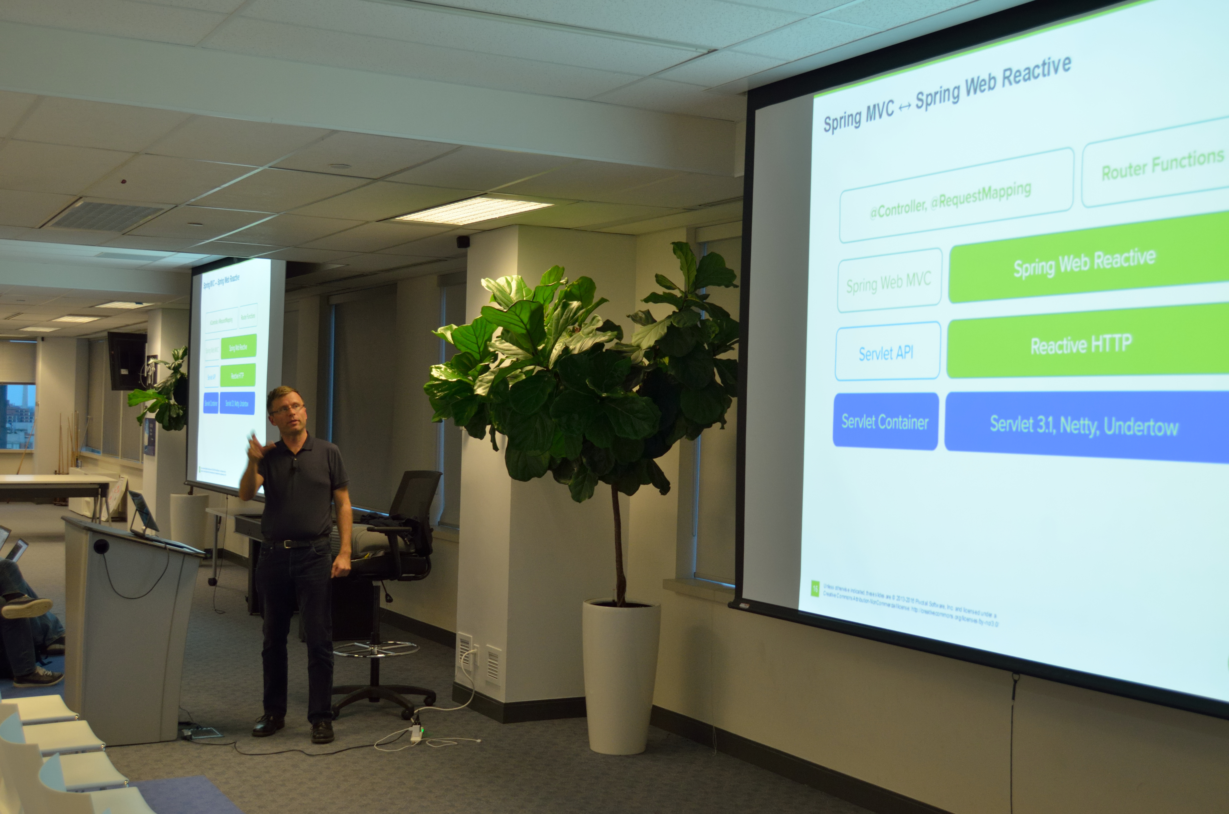 Spring 5 Overview With Juergen Hoeller